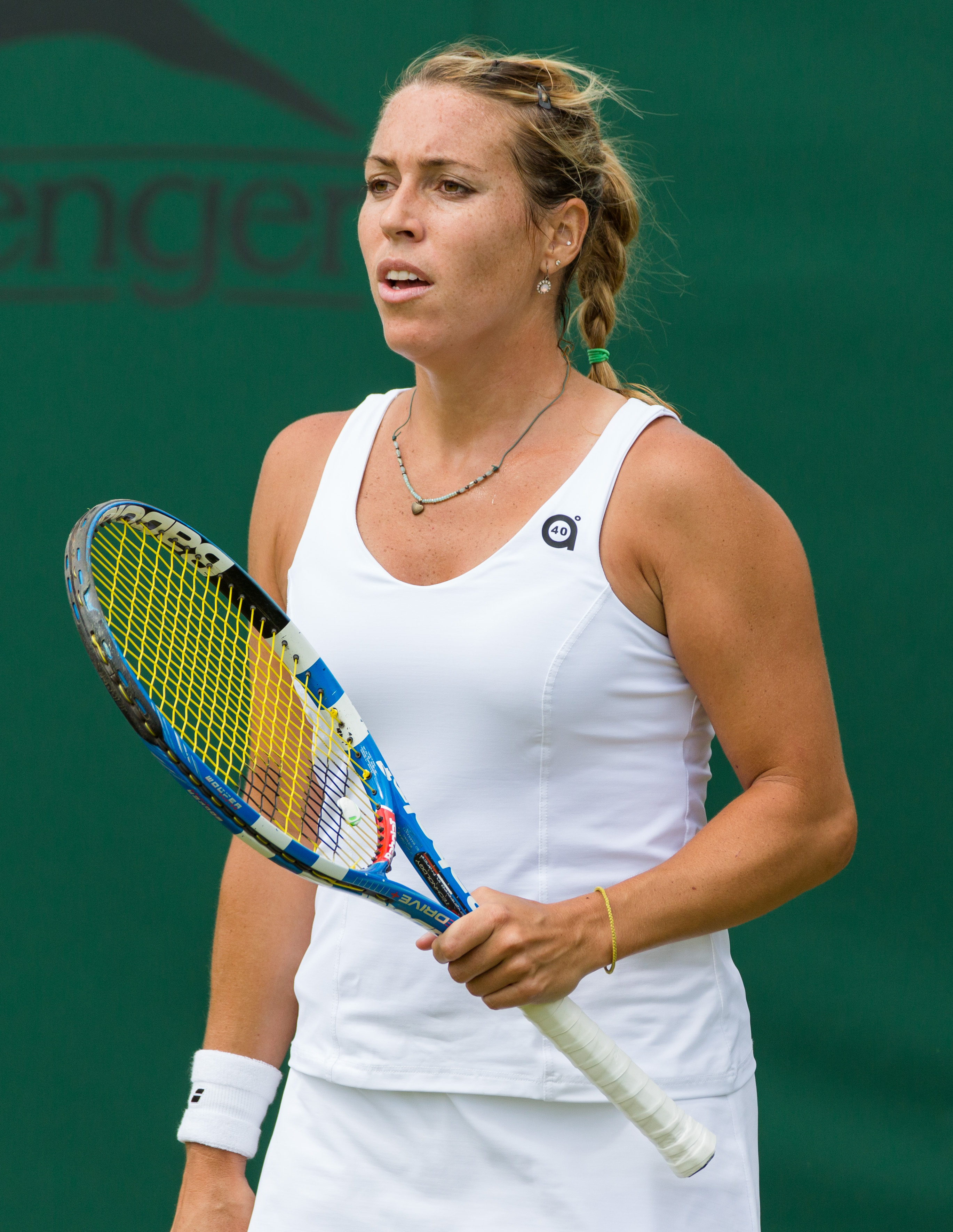 Laura Pous Tió competing in the first round of the 2015 Wimbledon Qualifying Tournament at the Bank of England Sports Grounds in Roehampton, England. The winners of three rounds of competition qualify for the main draw of Wimbledon the following week.